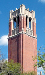 GIMP cropping of File:CenturyTower.jpg, originally uploaded by Dchauncey under the licensing terms below. Update: File:CenturyTower.jpg was uploaded locally by Dchauncey at enwiki under false claim of authorship and license. The original file is File:Century Tower (University of Florida).jpg by Flickr user Kate Haskell (03.2006, Cc-by-2.0 ), transferred to Commons on 20 August 2013 (original upload date).